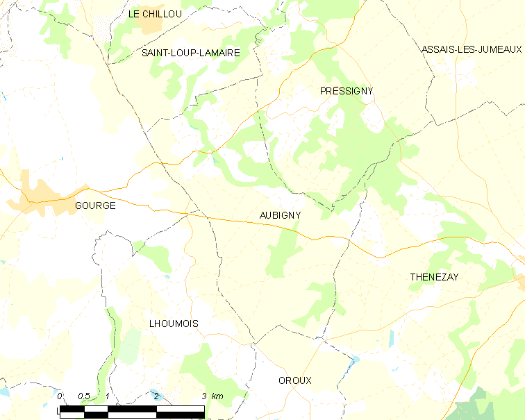 Map of French municipality Aubigny